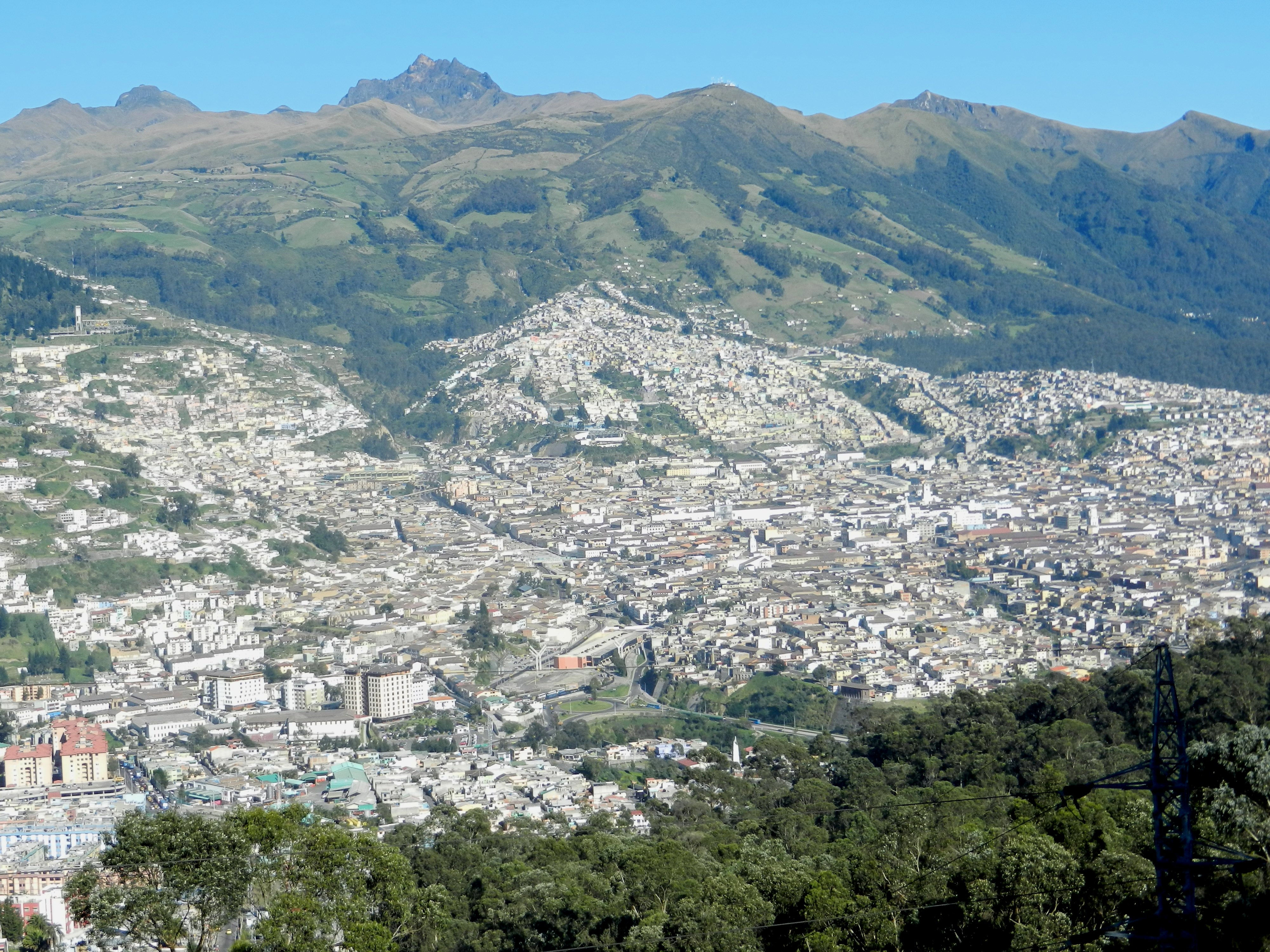 View of Quito and the Pichincha volcano Rucu